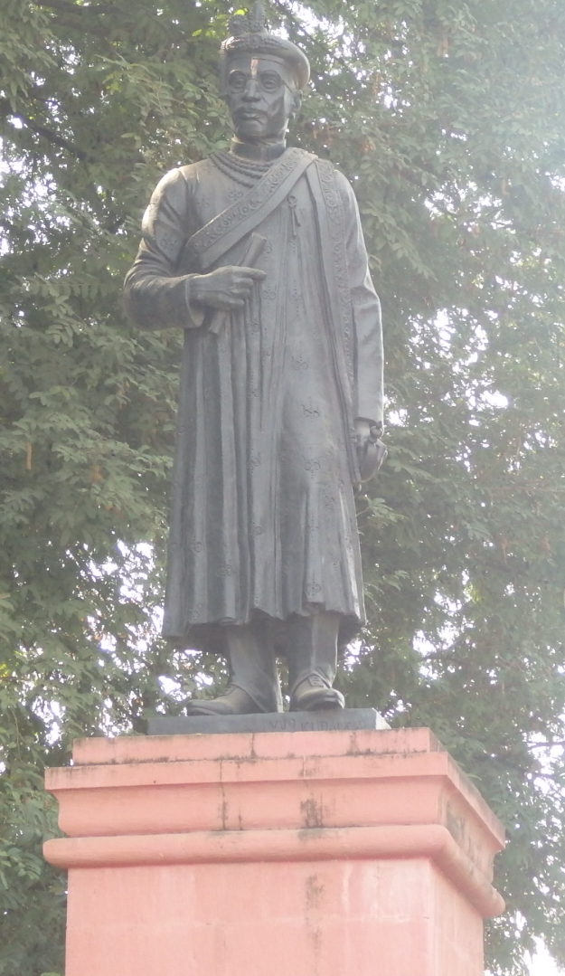 Statue of Narayanrao Babasheb, Jahagirdar of Ichalkaranji.